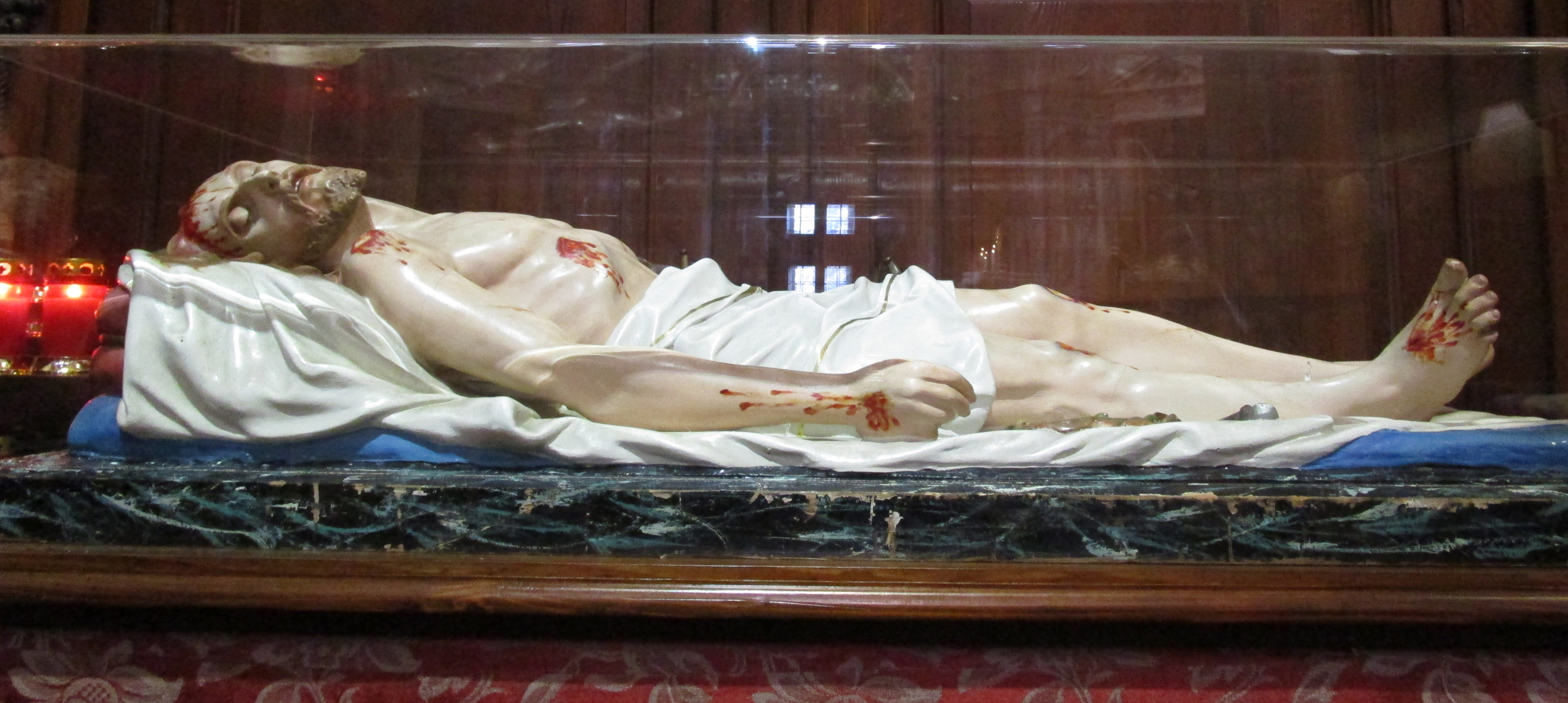 Sanctuary Santa Maria della Croce in Crema, Italy, Jesus died